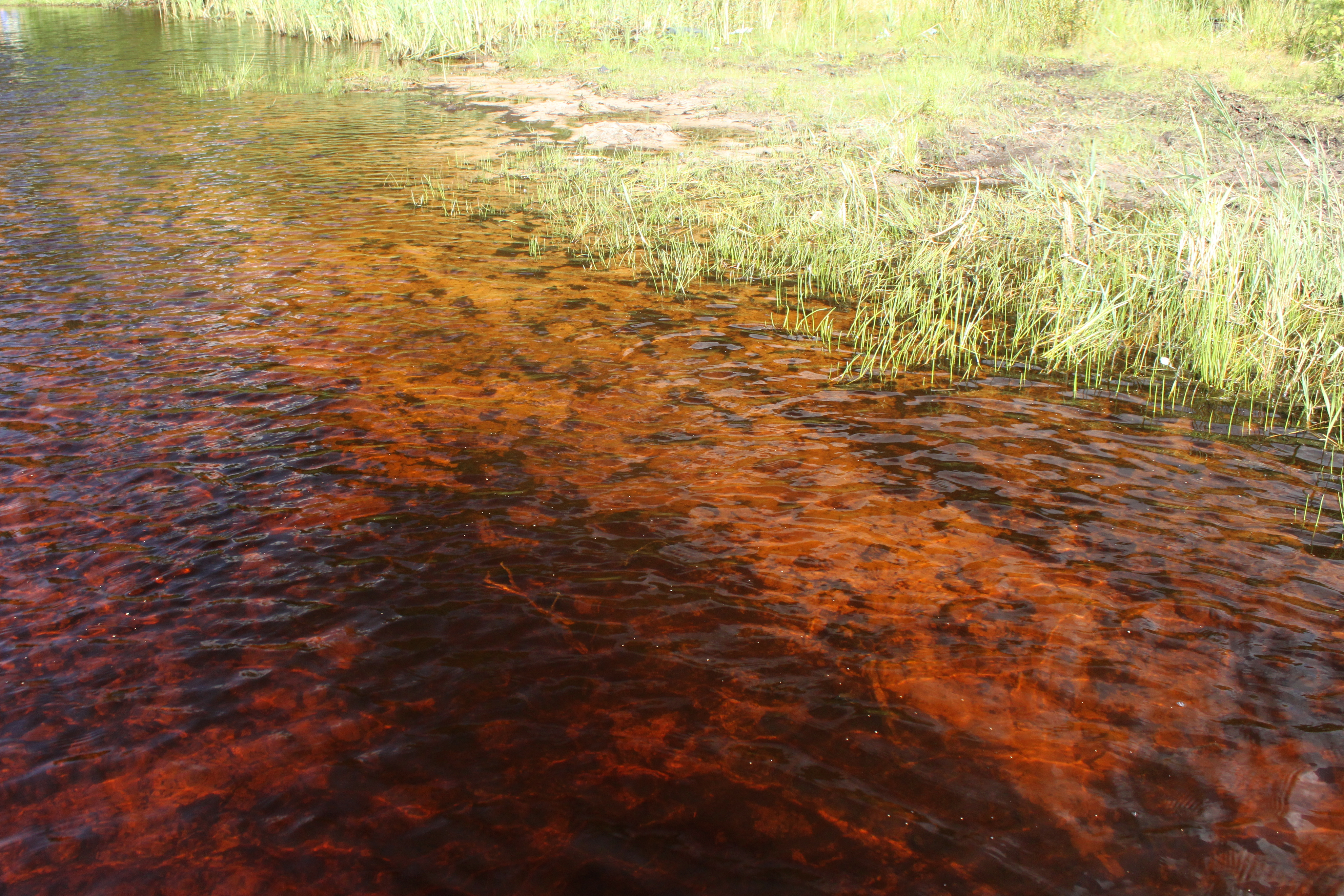 Water in lake Czarne photographed using polarizing filter, Marki, Poland